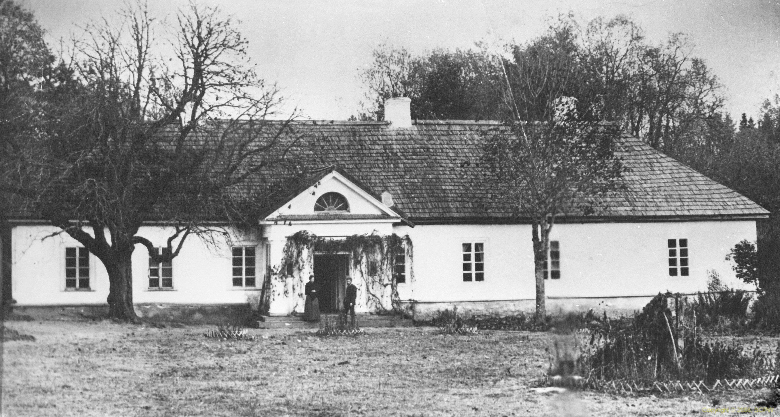 palace in Korczowa (Karczowa), later - Tuhanowicze (village). The Wereszczaka's manor. Before 1899 AD